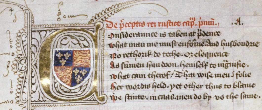 Historiated initial from a verse translation of Palladius's De Agricultura showing the coat of arms of Humphrey, Duke of Gloucester who commissioned the work. One of three volumes remaining from the original bequest of the Duke Humfrey Library in Oxford University